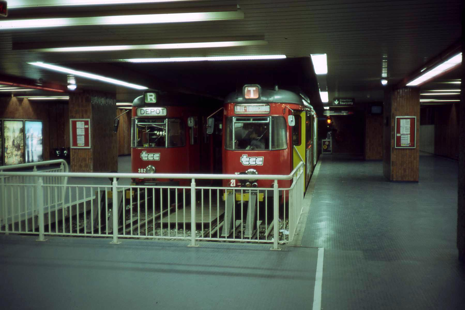 underground terminal in Lille (station Lille Flandres) in before renovation.